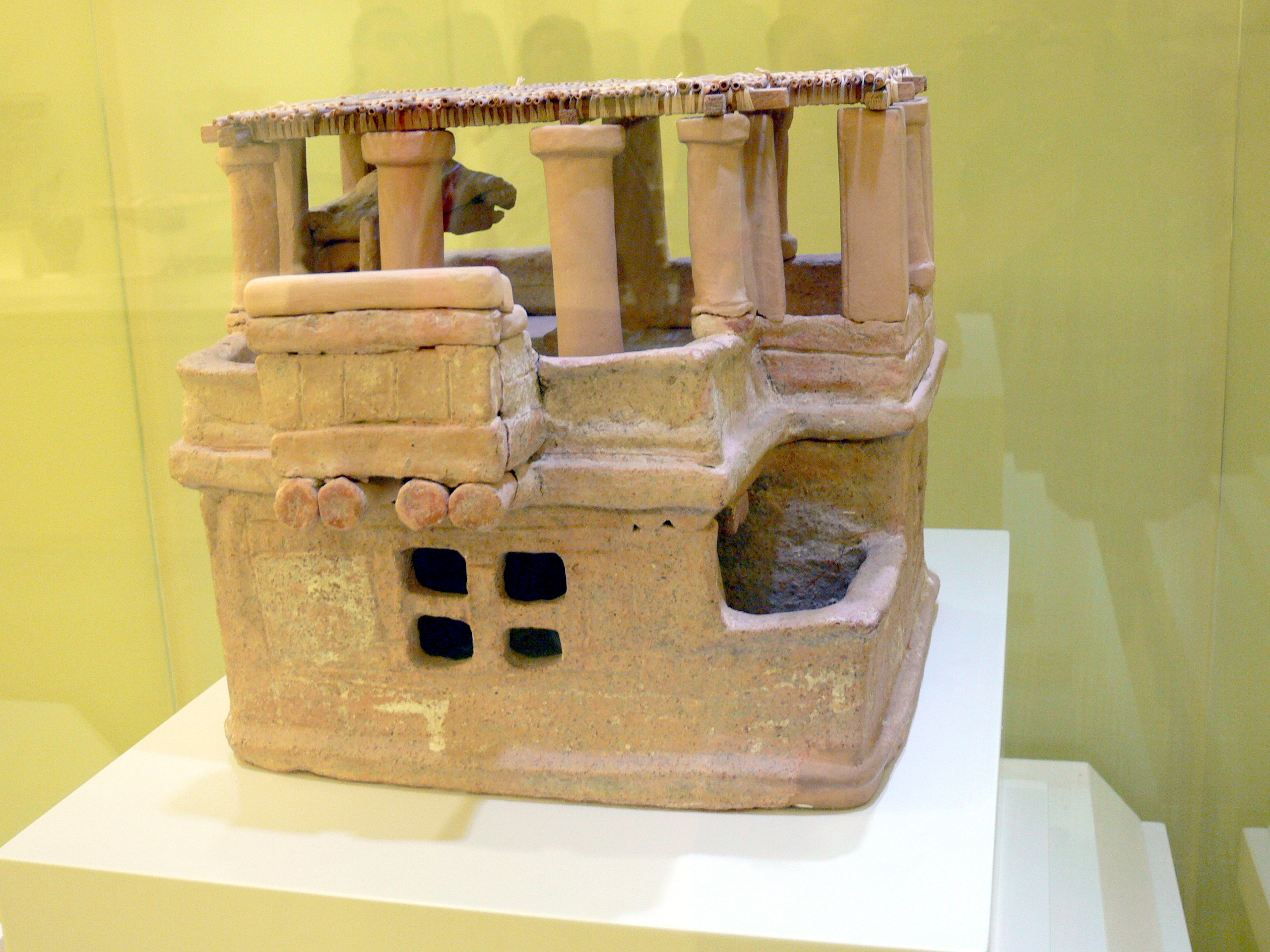 Archaeological Museum in Herakleion. Clay modell of a Minoan house ( 1600 B.C. )